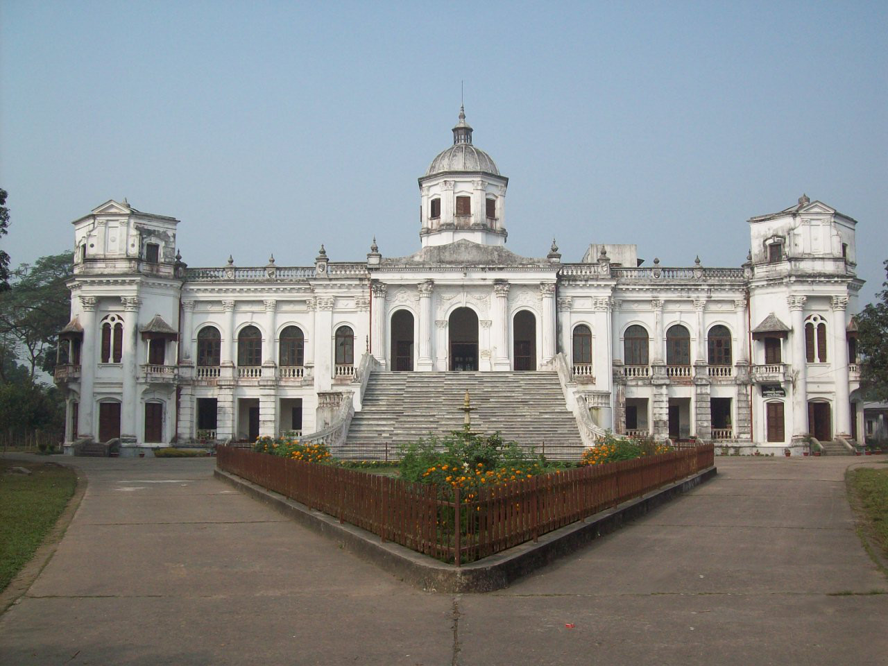 Tajhat Rajbari, Rangpur